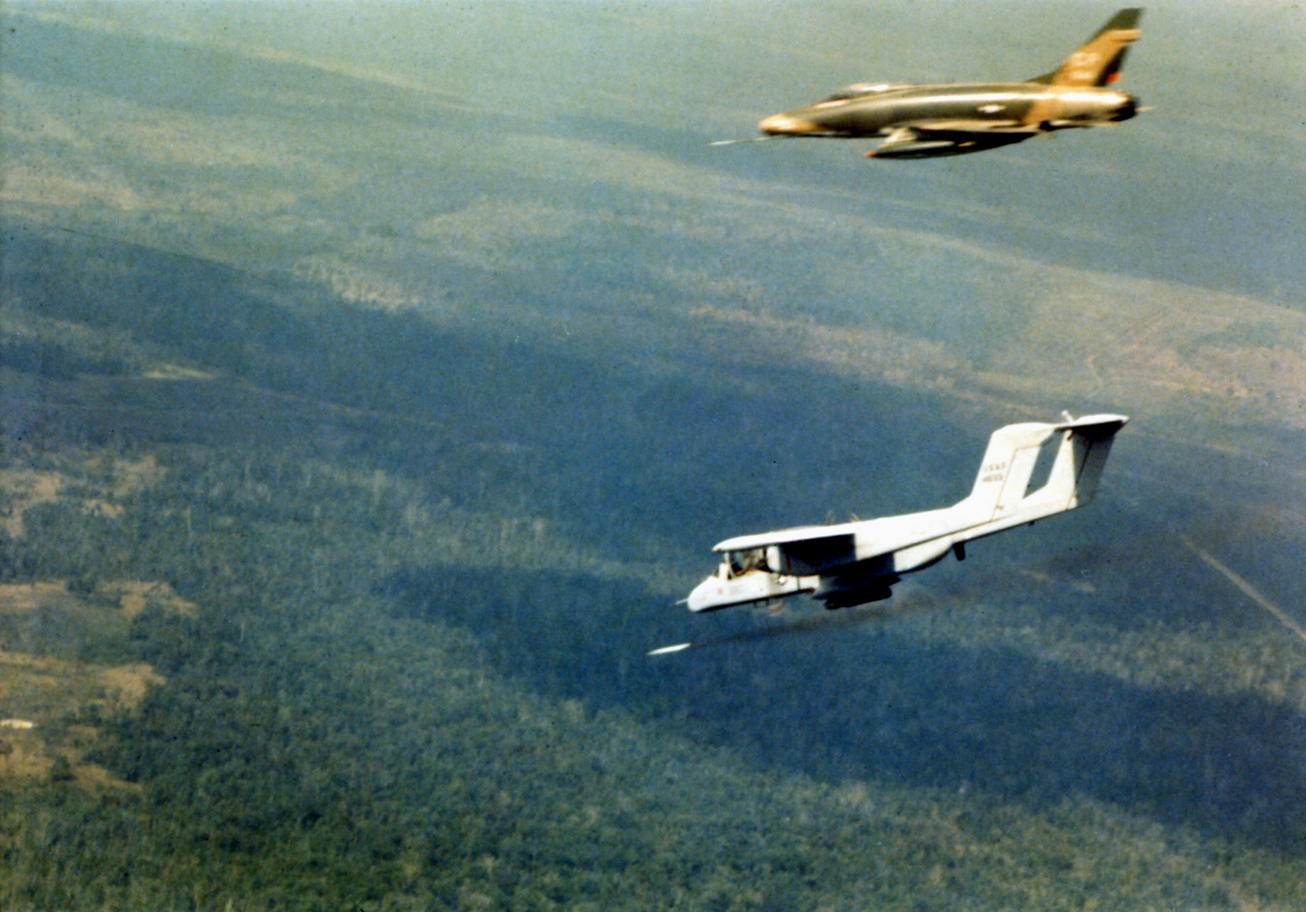 A U.S. Air Force North American OV-10A Bronco firing a smoke rocket in the area north of Saigon in February 1969 to show where the North American F-100D Super Sabre should drop its bombs. The F-100 was assigned to the 531st Tactical Fighter Squadron, 3rd Tactical Fighter Wing, at Bien Hoa air base.